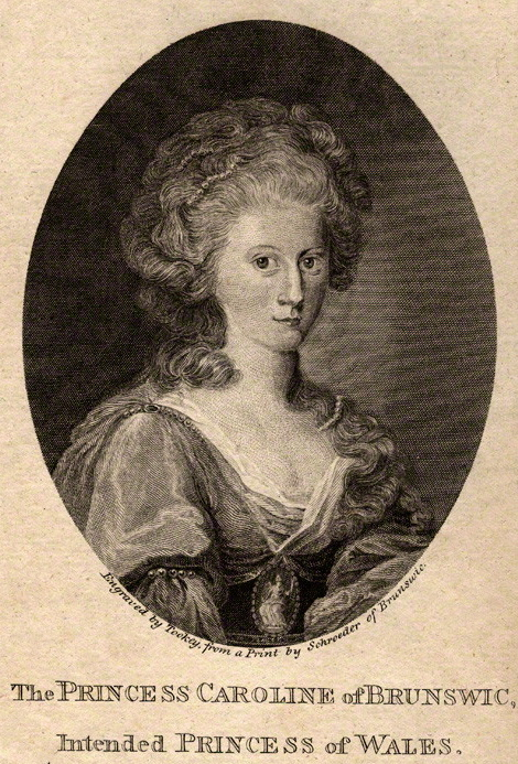 Portrait of Caroline of Brunswick (1768-1821)